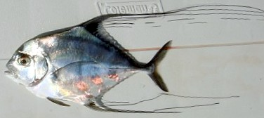 Taken of northern Bali. Alectis ciliarus